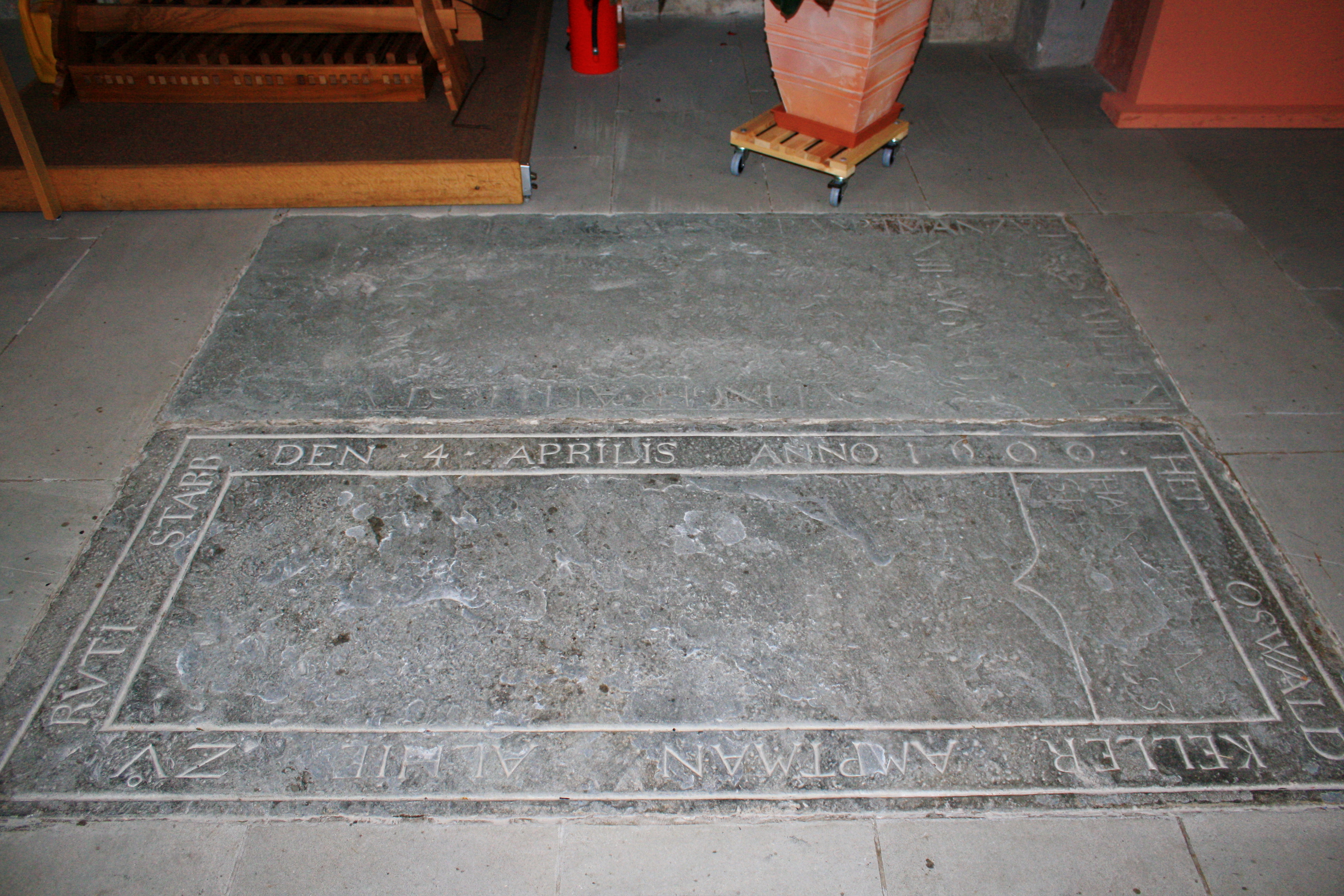 Rüti (ZH) : Former Rüti Abbey, today's Protestant church.